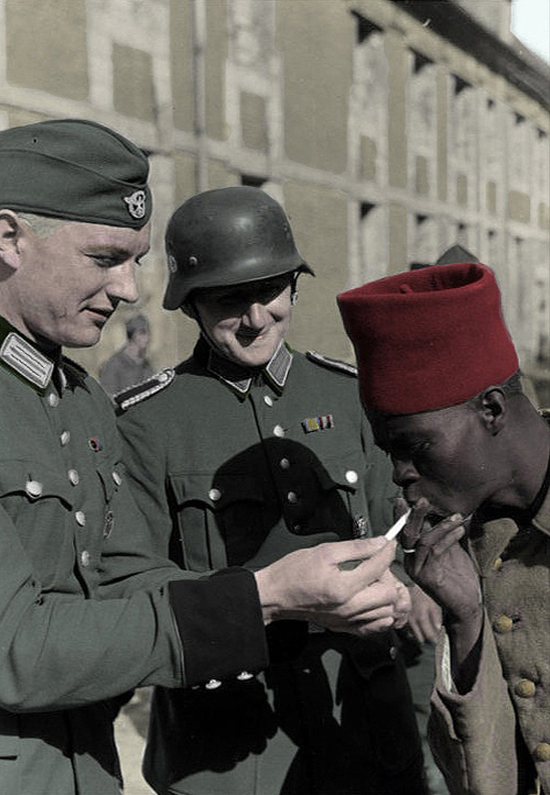 This is a retouched picture, which means that it has been digitally altered from its original version. Modifications: recolored by User:Ruffneck88. == Recolored Version of this image genutztes Programm Recolored v1.1. Französischer Kriegsgefangener mit Wachtposten Photographer UnknownArchive description Description provided by the archive when the original description is incomplete or wrong. You can help by reporting errors and typos at Commons:Bundesarchiv/Error reports. Französische Kriegsgefangene (zumeist Kolonialsoldaten)Title Französischer Kriegsgefangener mit Wachtposten Original caption Freund und Feind 2 Wachtm. der Sch. [Schutztruppe?]Date 1940date QS:P571,+1940-00-00T00:00:00Z/9Collection German Federal Archives Native nameDas BundesarchivLocationKoblenz (headquarters)Coordinates50° 20′ 32.71″ N, 7° 34′ 21.22″ E Established1946Web page control : Q685753 VIAF: 137346469 ISNI: 0000 0004 0555 2728 LCCN: n92025526 NLA: 36455393 Open Library: OL55798A WorldCat institution QS:P195,Q685753Current location Sammlung Adolf von Bomhard (Bild 121)Accession number Bild 121-0417 Source This image was provided to Wikimedia Commons by the German Federal Archive (Deutsches Bundesarchiv) as part of a cooperation project. The German Federal Archive guarantees an authentic representation only using the originals (negative and/or positive), resp. the digitalization of the originals as provided by the Digital Image Archive. Freund und Feind 2 Wachtm. der Sch. [Schutztruppe?]